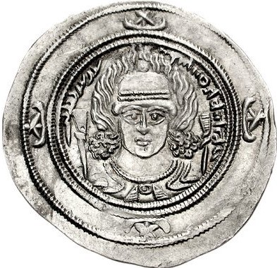 Coin of the Iranian goddess Anahita, minted during the reign of Khosrow II.